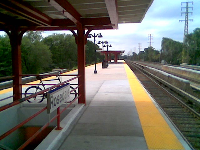 Looking west from the platform of Rosedale (LIRR station).